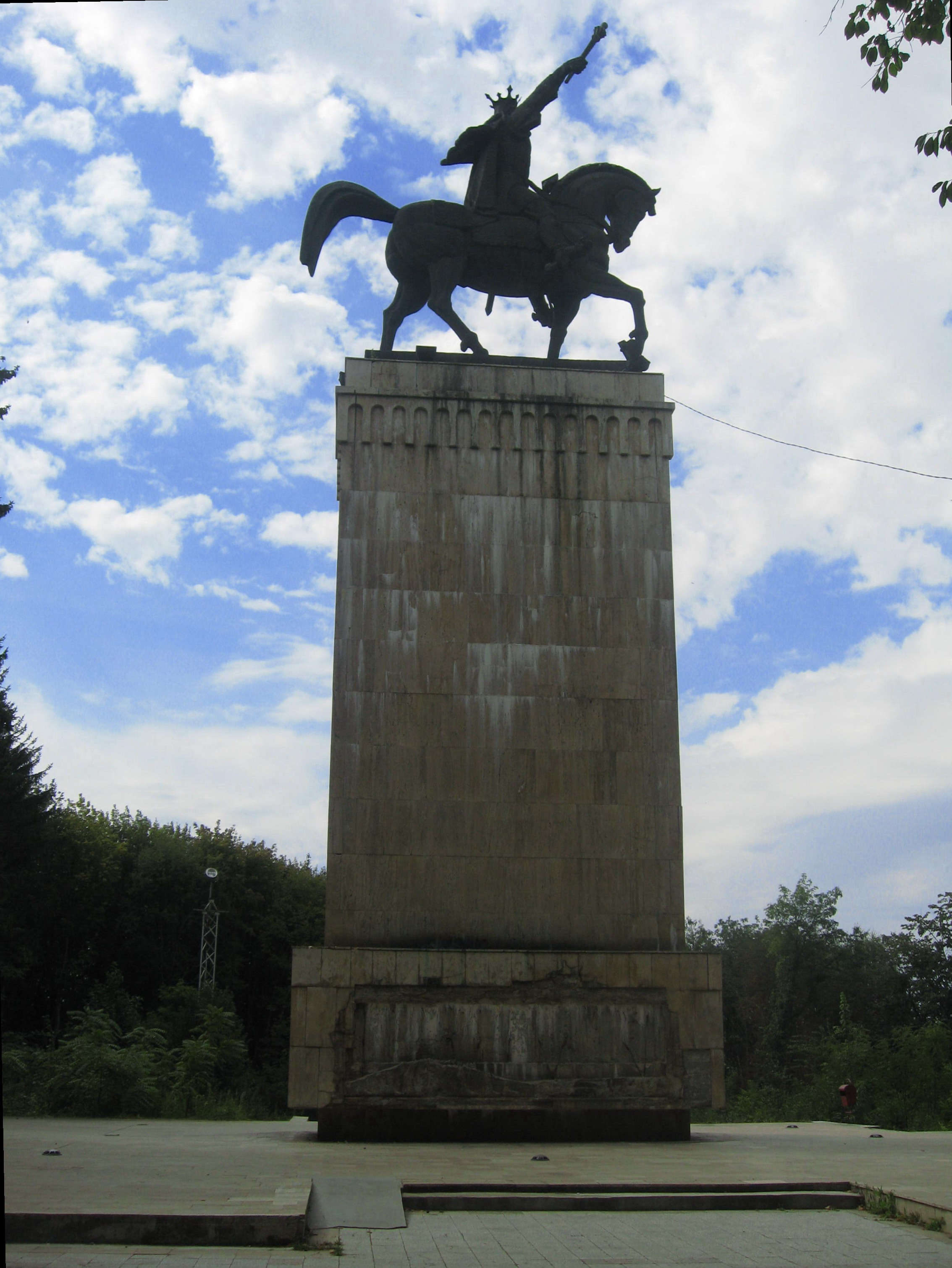 Equestrian Statue of Stephen III of Moldavia in Suceava.